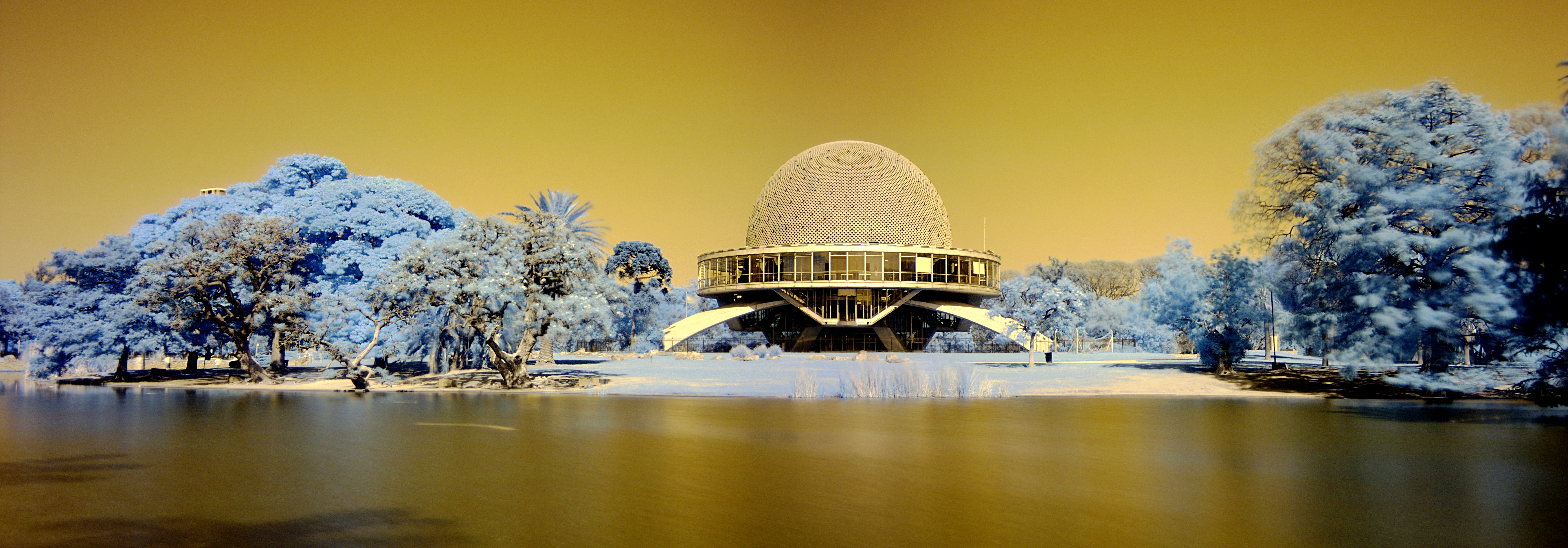 The Planetarium IR